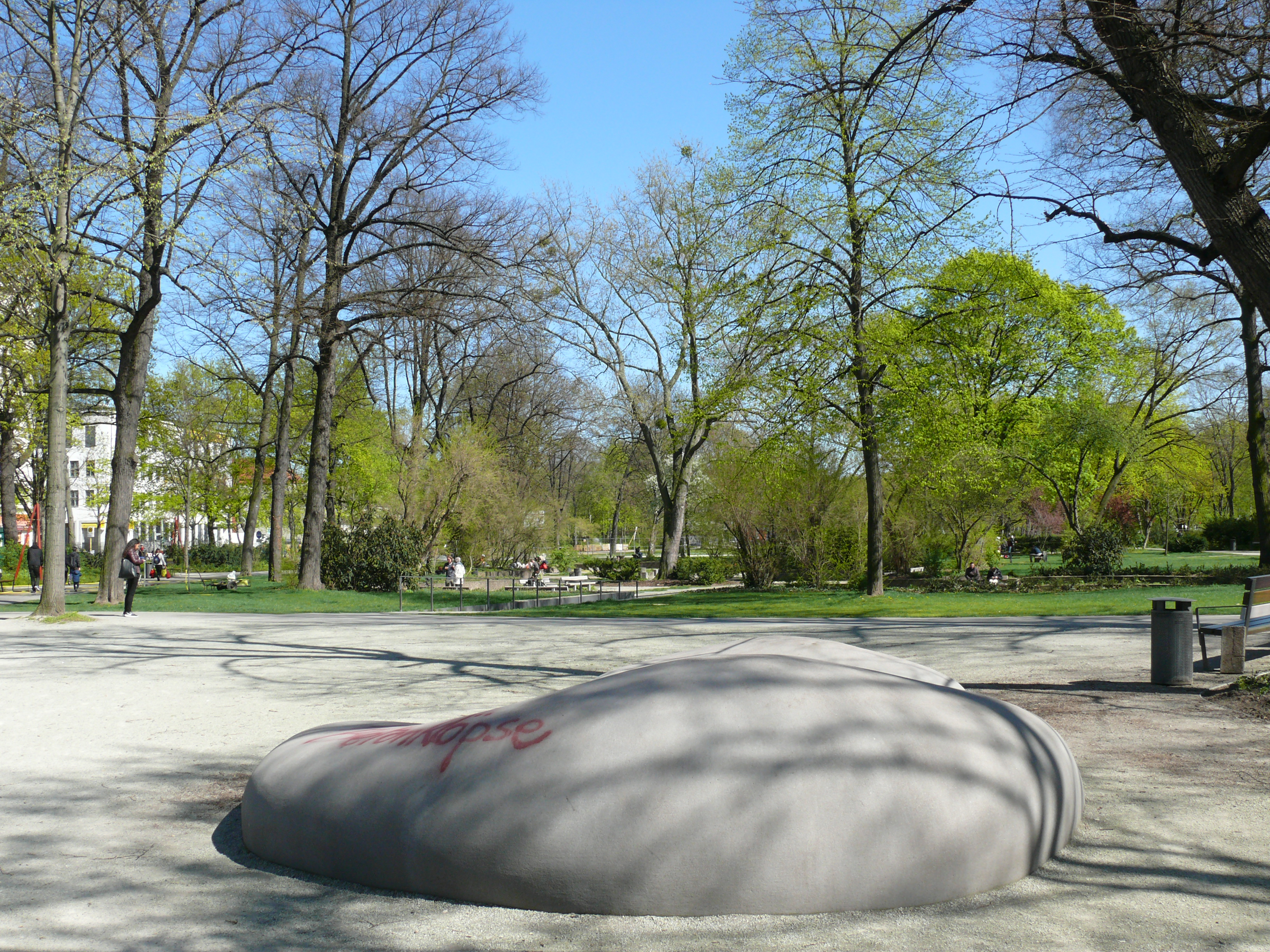 Sitzkiesel, Berlin Moabit Kleiner Tiergarten